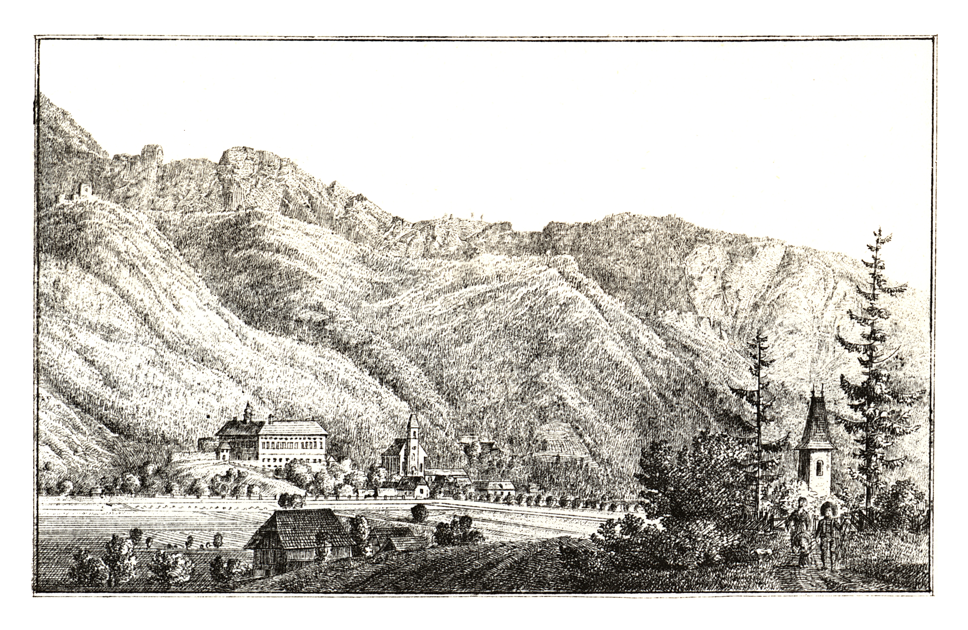 J. F. Kaiser - lithographirte Ansichten der Steyermärkischen Städte, Märkte und Schlösser, Graz 1824-1833 Joseph Franz Kaiser (1786–1859) Alternative names J. F. KaiserDescriptionAustrian printer and editorDate of birth/death 11 March 1786 19 September 1859Location of birth/death Graz (Styria) GrazAuthority control : Q1499963 VIAF: 30629353 ISNI: 0000 0000 3083 0153 LCCN: n87141671 GND: 129880159 NLP: A24960305 WorldCat creator QS:P170,Q1499963 . Scanprojekt Community Projektbudget 2012 This scan or this PDF-file was created within the GLAM-project Bookscanning, supported by Wikimedia Germany and Wikimedia Austria as a part of the community-project to capture books, documents and pictures which are not eligible to copyright or for which the copyright has expired. This document describes or depicts an object which is located in Austria today. Send requests for uncompressed scans to Hubertl. This work is in the public domain in its country of origin and other countries and areas where the copyright term is the author's life plus 100 years or less. You must also include a United States public domain tag to indicate why this work is in the public domain in the United States. This file has been identified as being free of known restrictions under copyright law, including all related and neighboring rights.